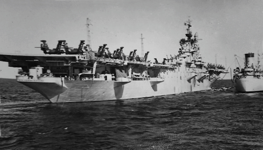 The U.S. Navy aircraft carrier USS Bon Homme Richard (CV-31) receives fuel from a fleet oiler off Korea. Bon Homme Richard, with assigned Carrier Air Group 102 (CVG-102), was deployed to Korea from 10 May to 17 December 1951.